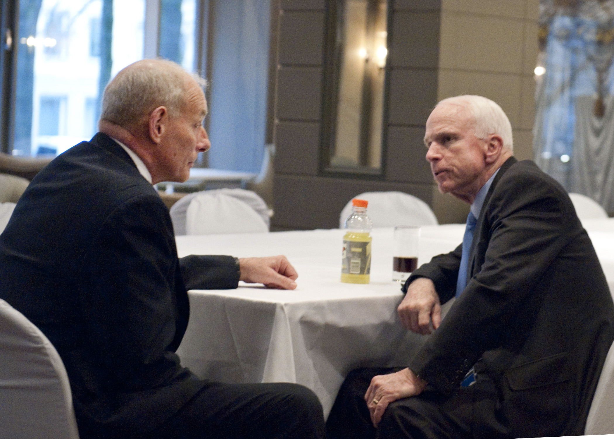 MUNICH - U.S. Secretary of Homeland Security John Kelly meets with U. S. Senator John McCain, Chairman of the Senate Committee on Armed Services, at the Munich Security Conference in Munich, Germany, Feb. 17, 2017. Over the past five decades, the Munich Security Conference (MSC) has become the major global forum for the discussion of security policy. Each February, it brings together more than 450 senior decision-makers from around the world, including heads-of-state, ministers, leading personalities of international and non-governmental organizations, as well as high ranking representatives of industry, media, academia, and civil society, to engage in an intensive debate on current and future security challenges. Official DHS photo by Barry Bahler.